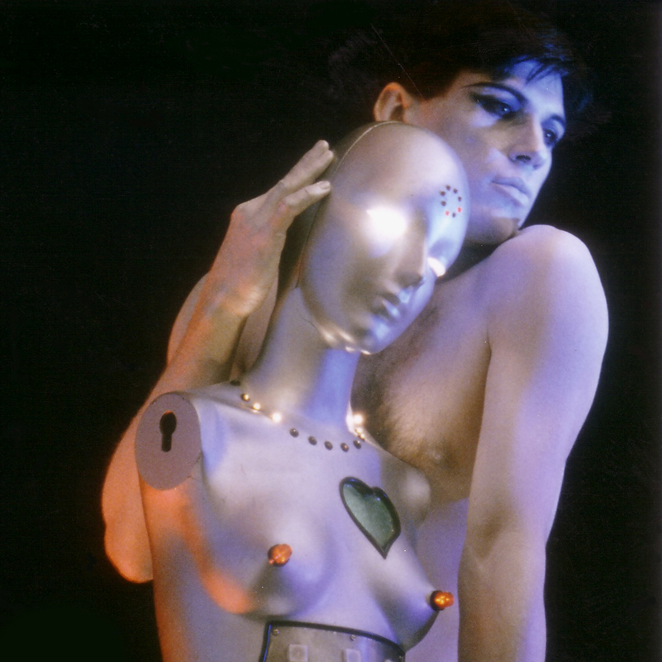 Multimedia-artist XYNN